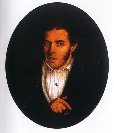 Retrato de Vicente Guerrero en ropa de civil, Siglo XIX